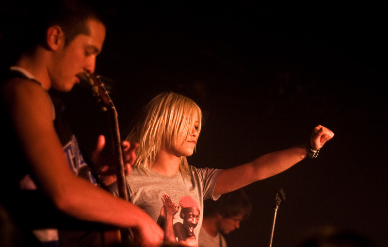 Australian band Tonight Alive live in 2012